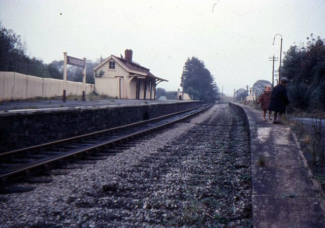 Saundersfoot Railway Station This picture was taken soon after the track had been removed from the up platform